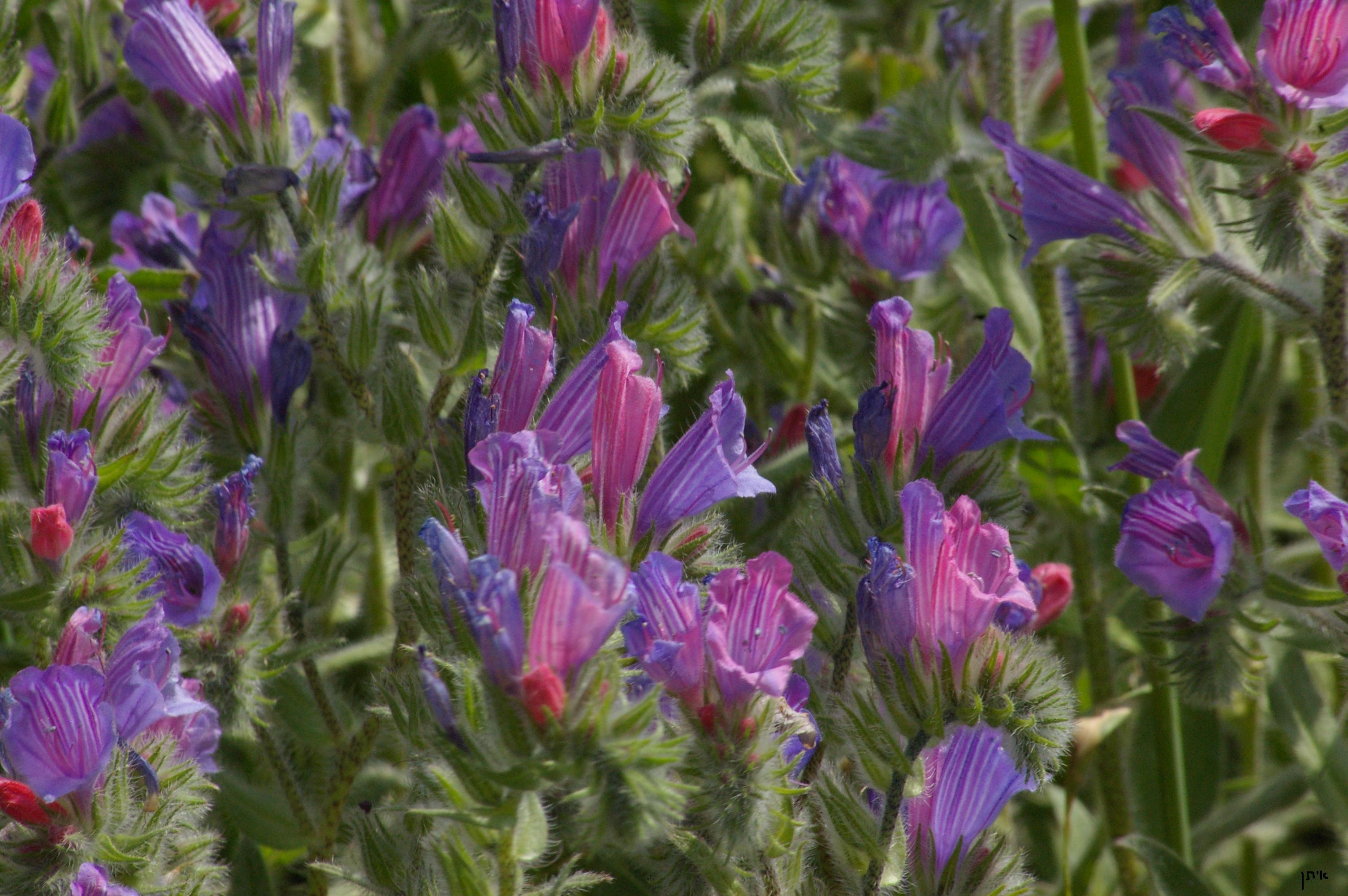 Echium judaeum - Judean Viper`s-Bugloss עכנאי יהודה, נחל סנין